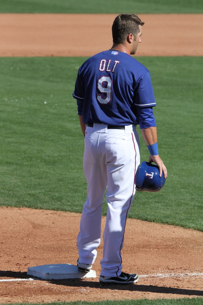 Mike Olt Texas Rangers 2013 Spring Training